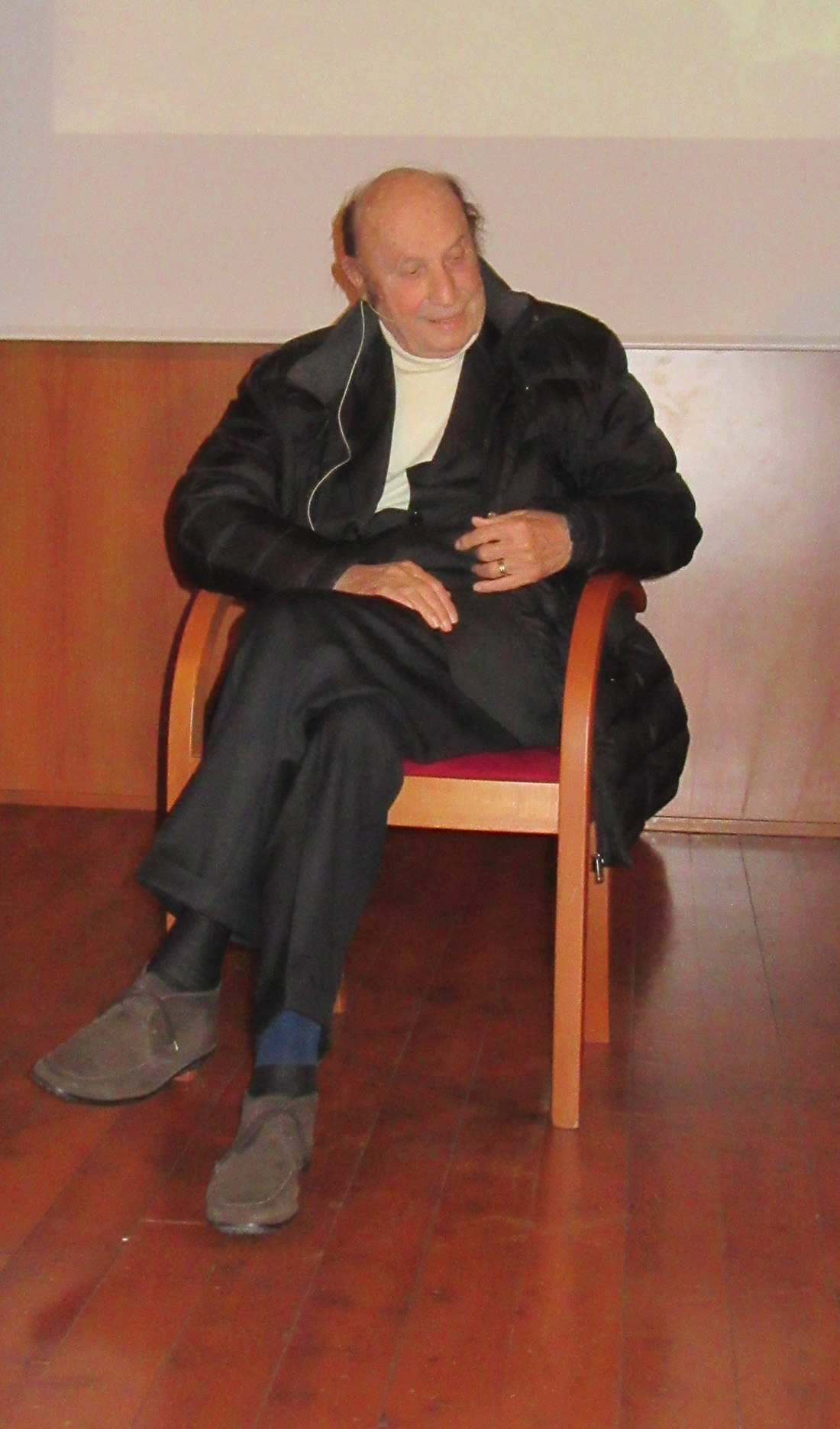 Prof. Francesco Alberoni in Codogno (Italy), on Dec., 11th, 2016